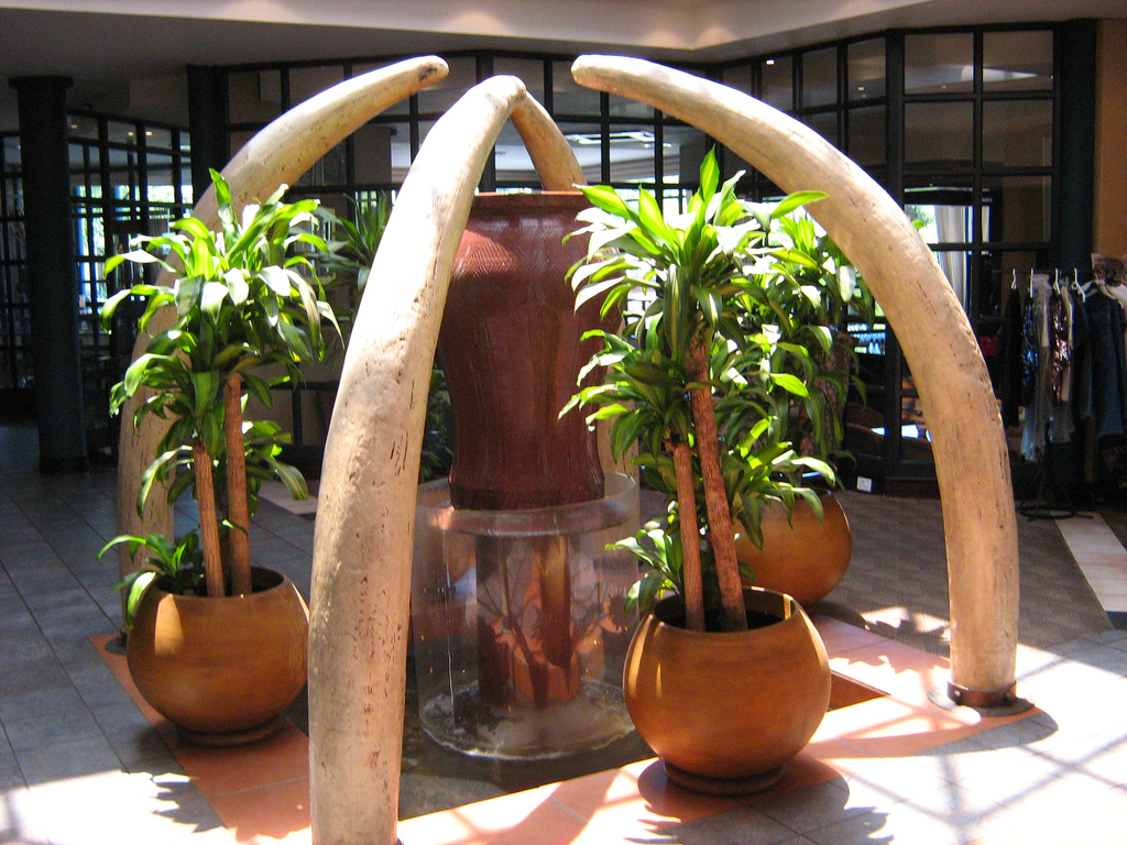 The entrance to the Kopanong Conference Centre in Benoni, Gauteng, South Africa.